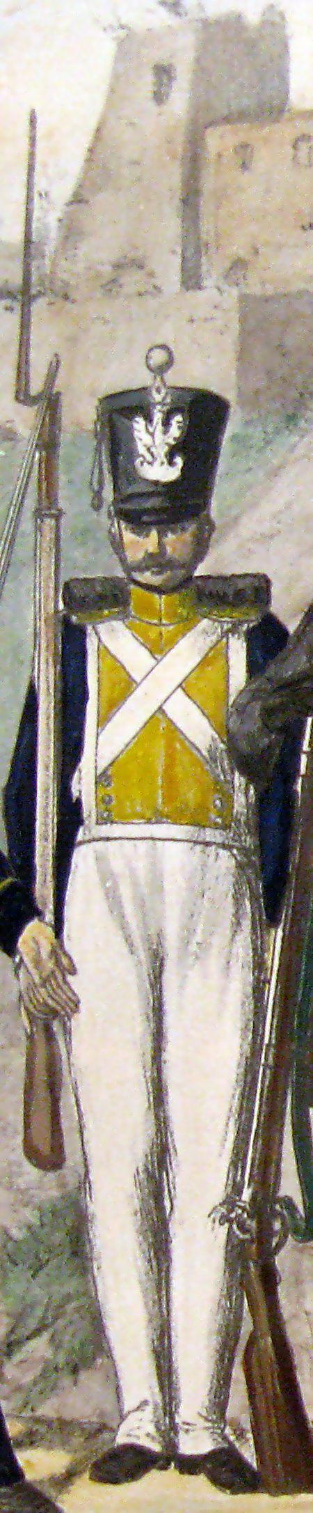 3rd Infantry Regiment of Polish Army of November Uprising